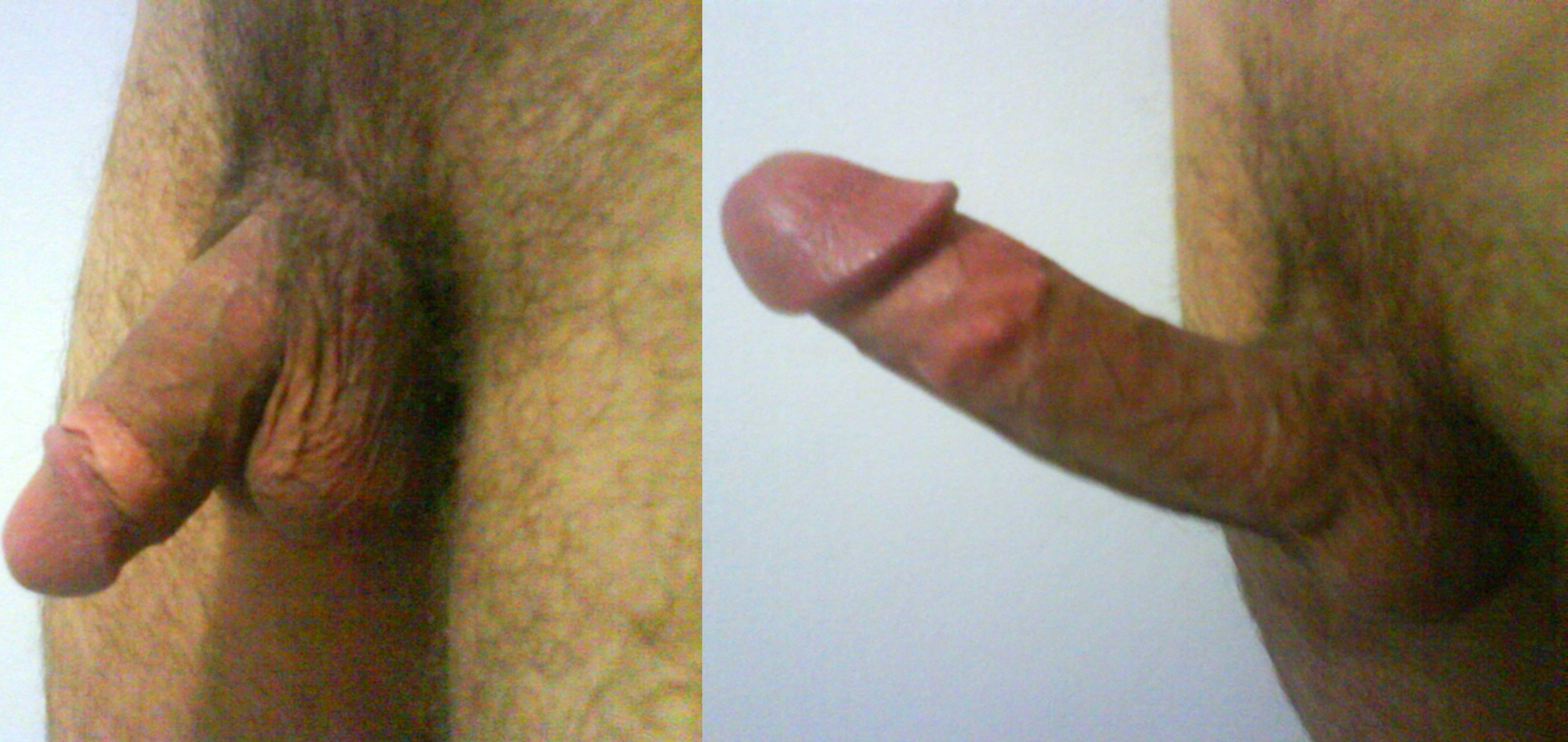 Degree of Rigity